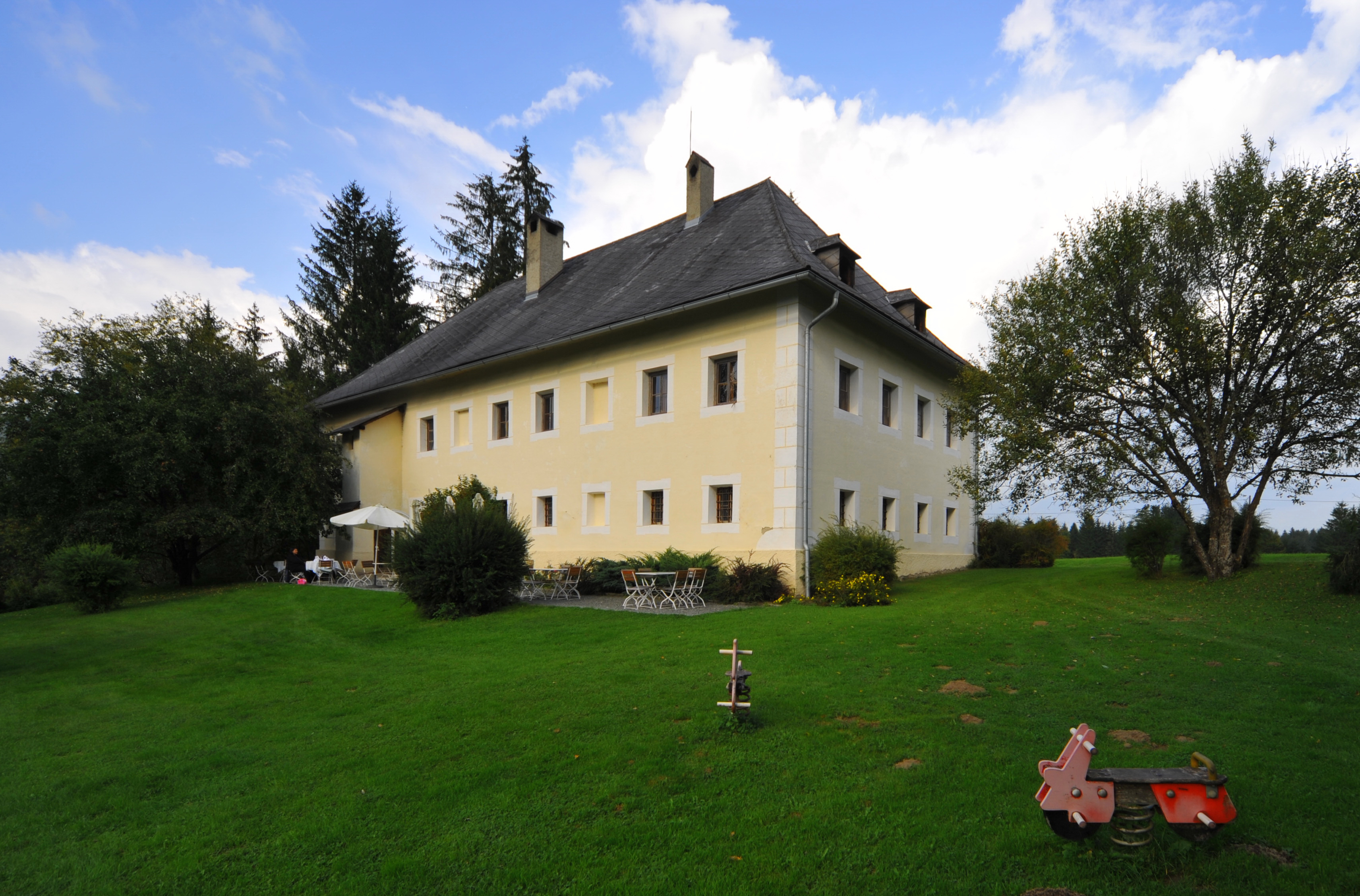 Castle Albeck in the municipality Albeck, district Feldkirchen, Carinthia, Austria